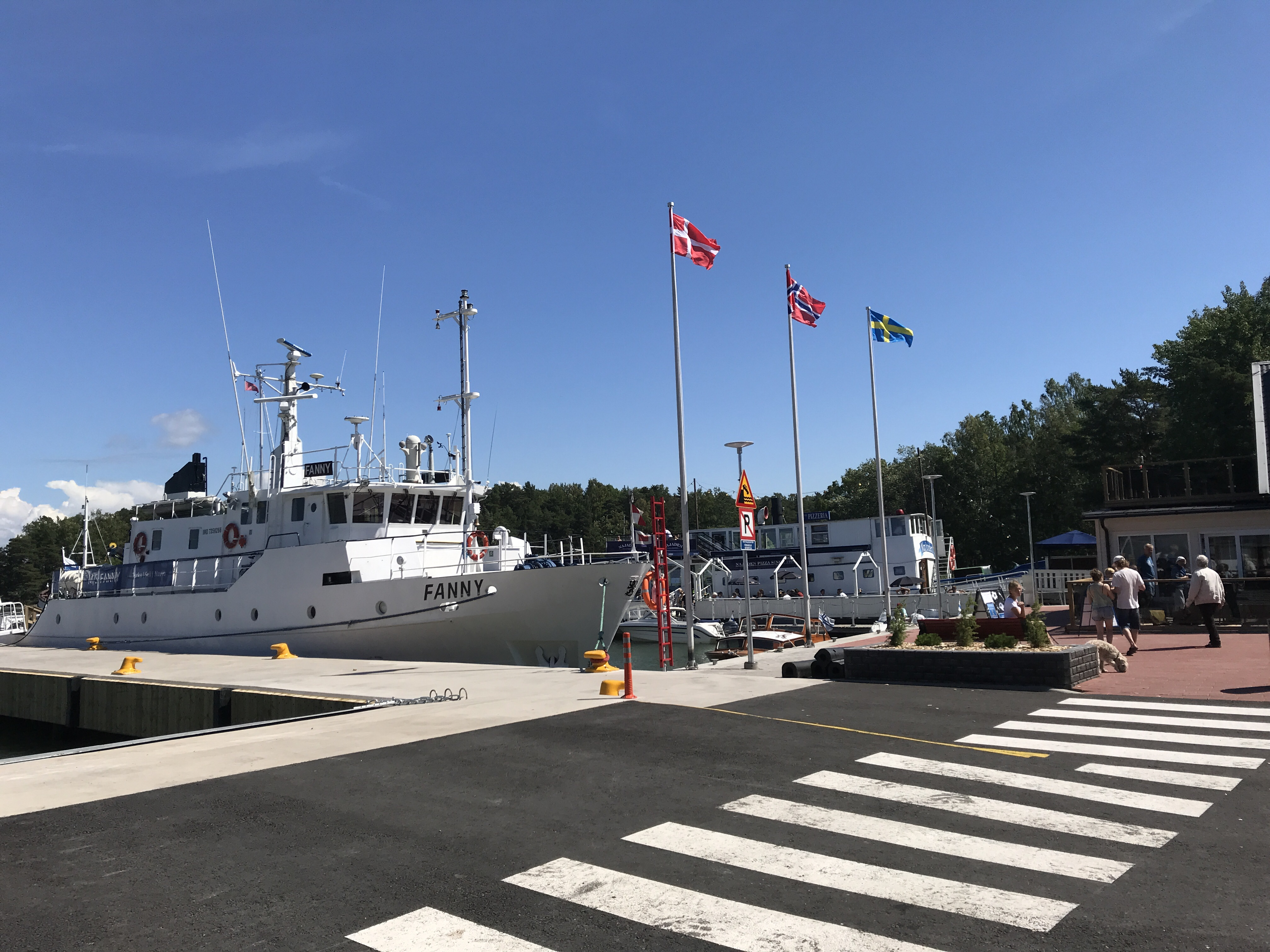 M/S Fanny in the north harbour of Nagu Kyrkbacken. Najaden in the background is used as pizzeria.